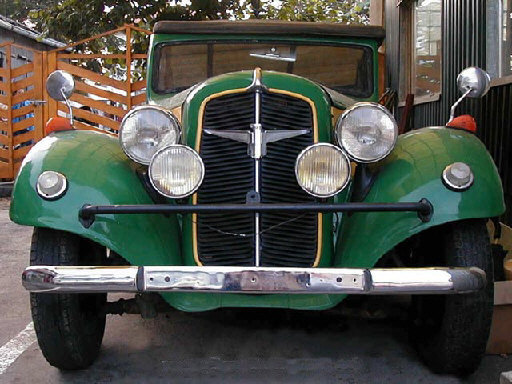 Adler Junior Type 1E